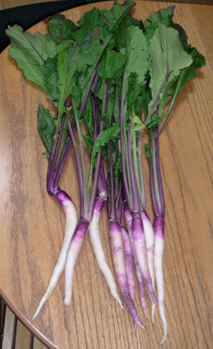 Brassica campestris var. akana